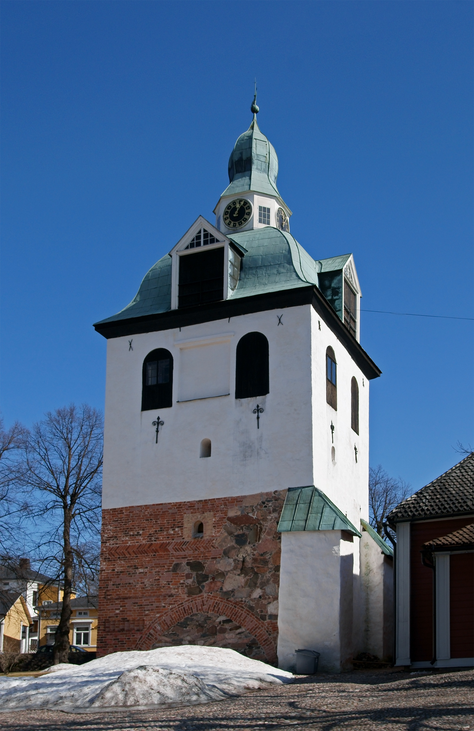 Porvoo Cathedral.